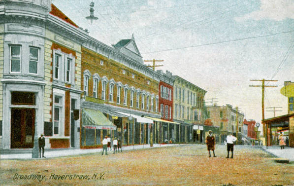 View north on Broadway. Corner of Main/New Main Street and Broadway; the "bank corner."